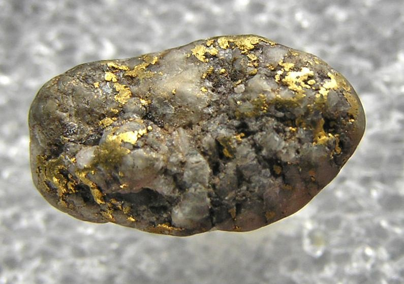 Gold (Var.: Electrum) Locality: Manhattan, Manhattan District, Nye County, Nevada, USA (Locality at ) Size: 1.8 x 0.7 x 0.6 cm. Electrum is a rare natural amalgam of gold and silver (sometimes with trace amounts of copper and other minerals as well). This smooth, water-worn nugget is from Nevada. It weighs about 7.5 cts. Ex. Carl Davis Coll.